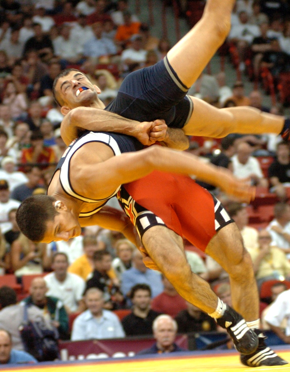 U.S. Army World Class Athlete Program Spc. Faruk Sahin throws Minnesota Storm's Jake Deitchler during the 66-kilogram Greco-Roman finals of the 2008 U.S. Olympic Team Trials for Wrestling June 14, 2008, at the University of Nevada Las Vegas' Thomas & Mack Center. Deitchler won the best-of-three series, 2-3, 7-5, 3-0.